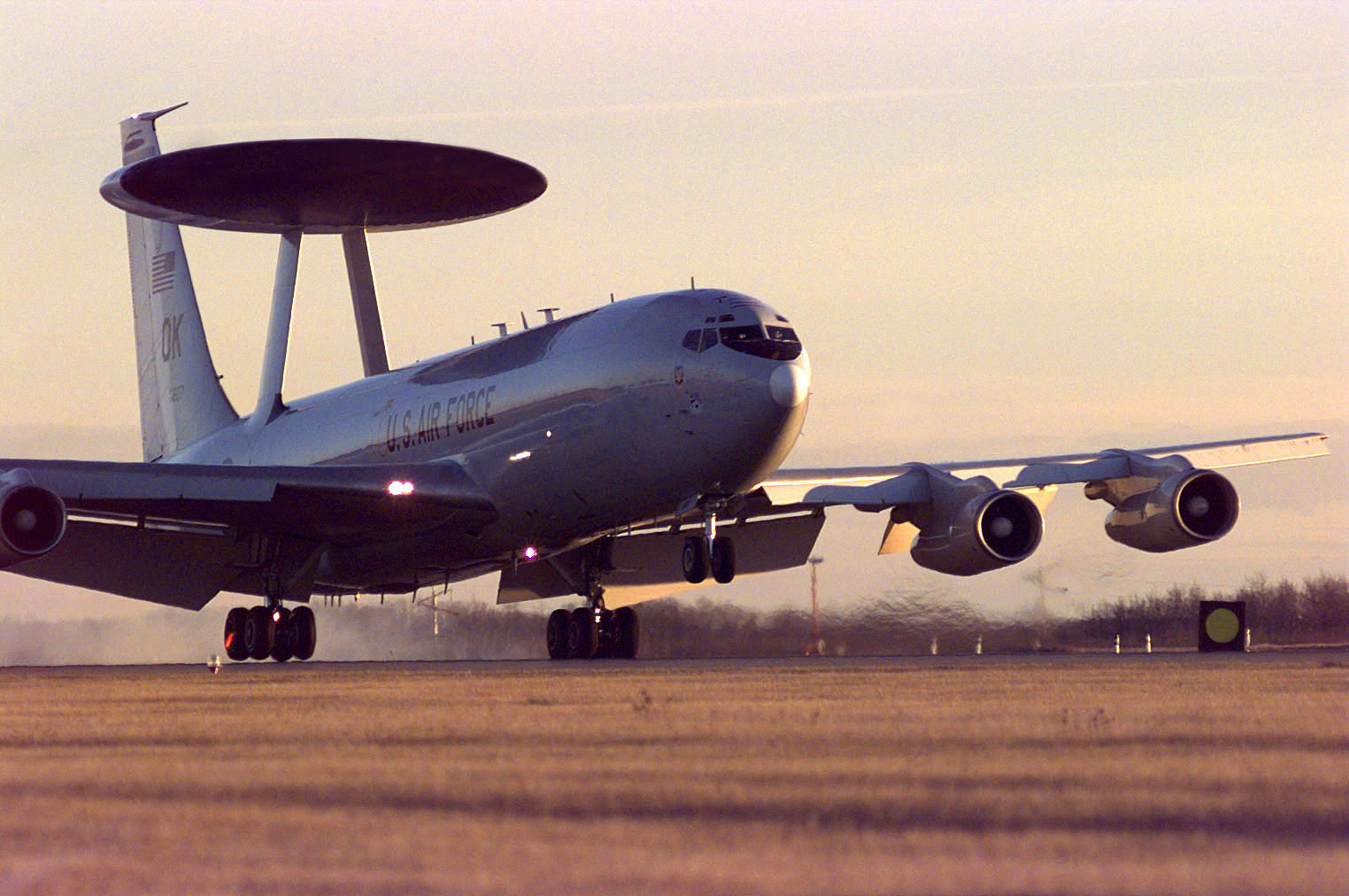 Returning from a mission during the air defense exercise Amalgam Warrior, an E-3 Sentry airborne warning and control system (AWACS) lands at Cold Lake, Canada.